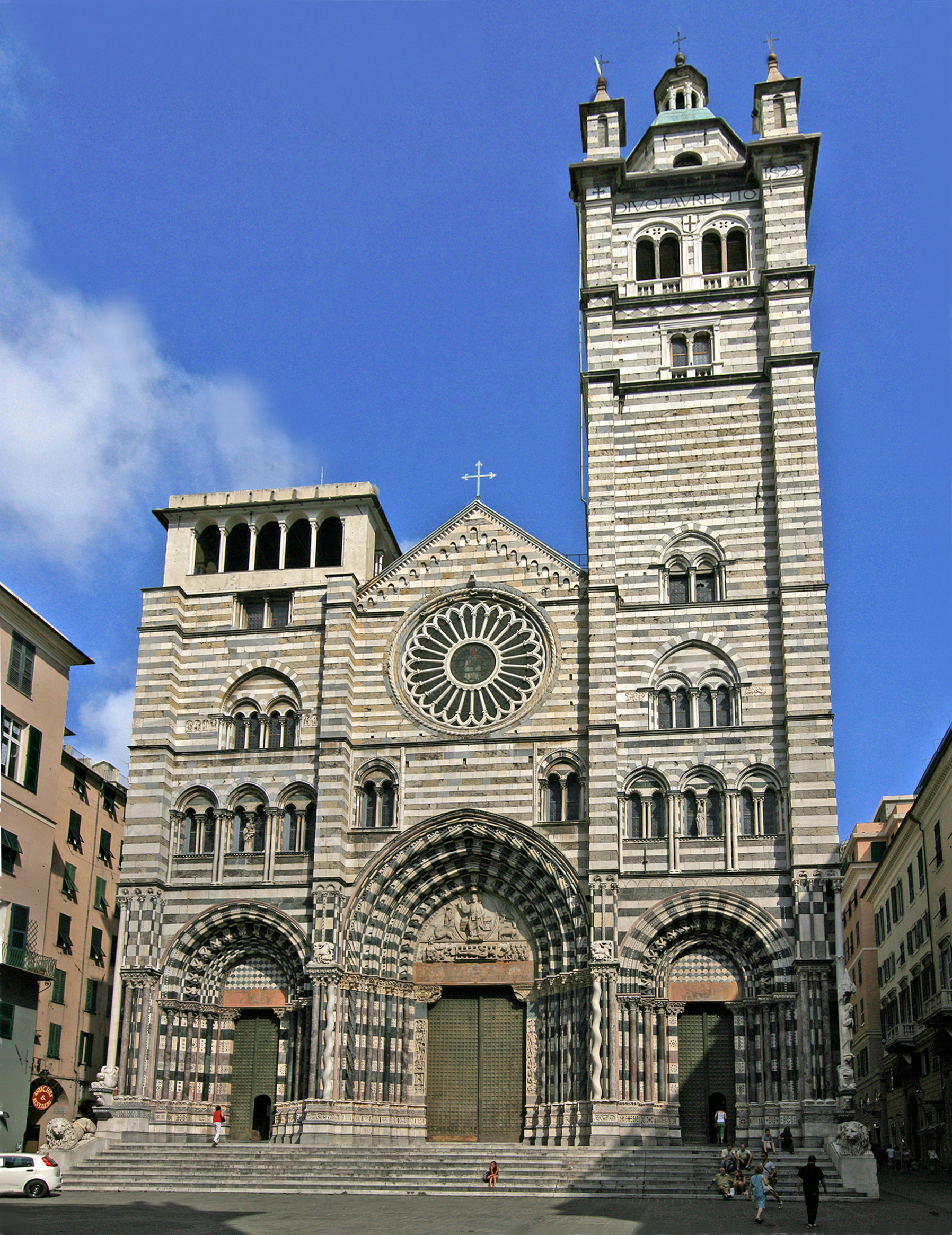 San Lorenzo cathedral, Genova, Italy.